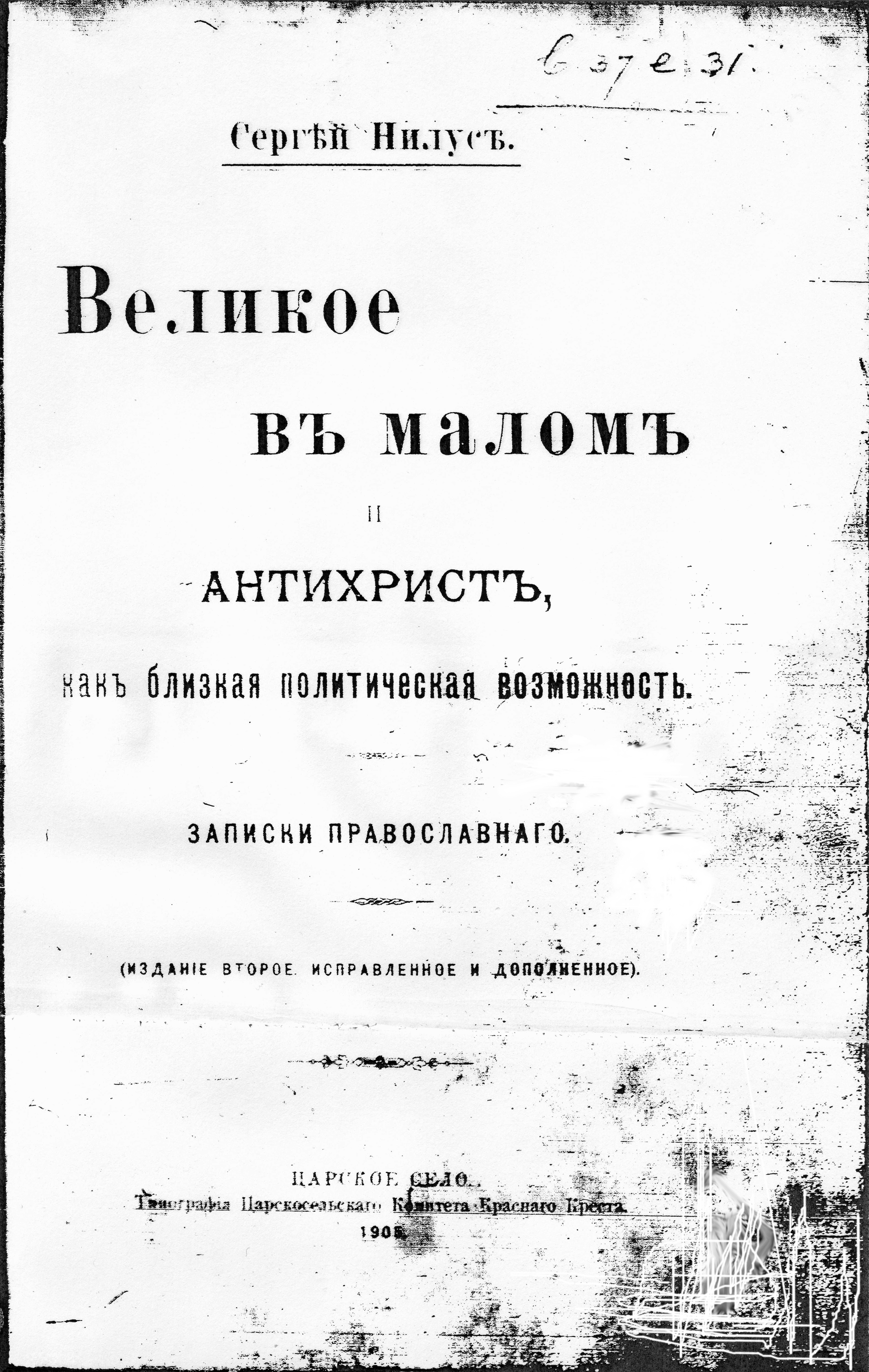 Title Page of the antisemitic work Serge Nilus, Great within the Small, The Protocols of Zion, 1905, Russia In English also known as The Protocols of the Elders of Zion or The Protocols of the Meetings of the Learned Elders of Zion (an antisemitic hoax purporting to describe a Jewish plan for global domination)